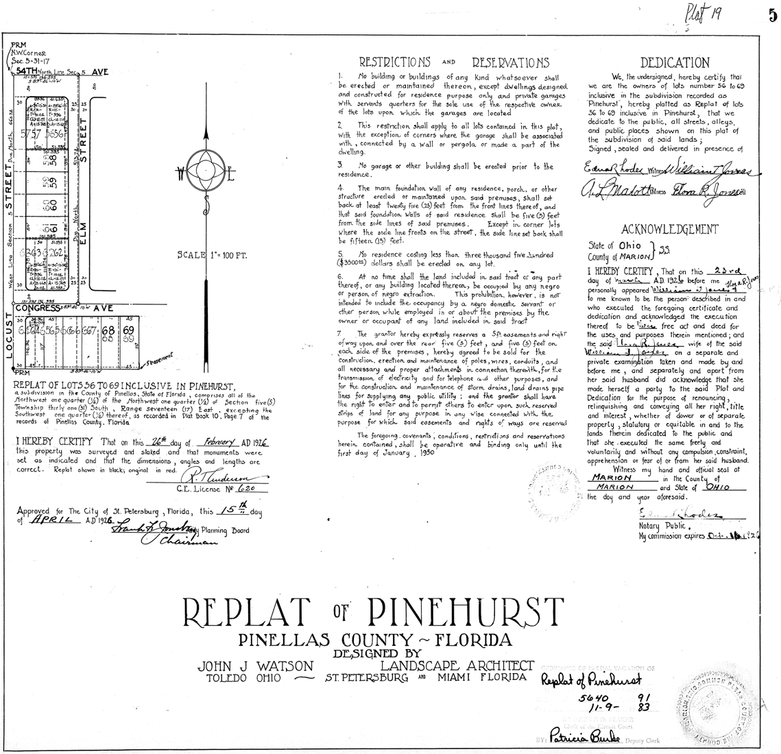 Copy of a subdivision record plat of REPLAT OF PINEHURST, as recorded in 1926 in Plat Book 19, Page 5, of the Public Records of Pinellas County, Florida. This is a scanned image of a 1926 subdivision record plat from the Public Records of Pinellas County, Florida, U.S.A., which includes a racially-discriminatory deed restriction, and also an example of "Privy Examination," the legal practice of verifying that a married woman's consent to a property transaction had not been coerced by her husband.